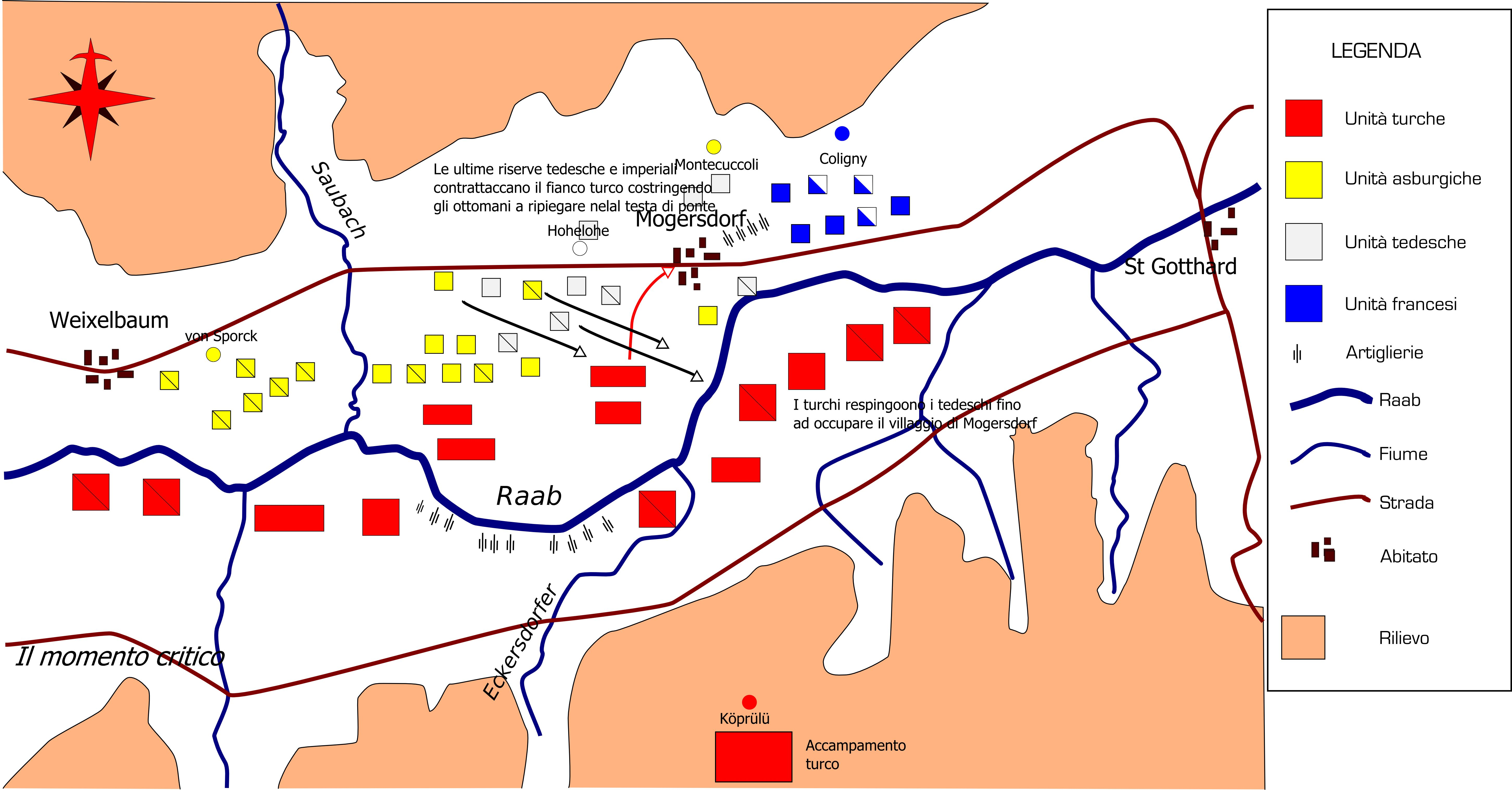 The main ottoman attack in the battle of St Gotthard